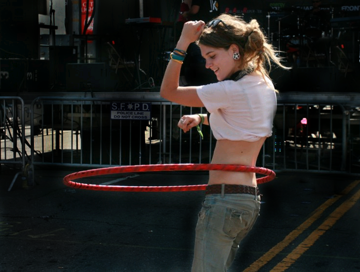 Woman with hula hoop, Folsum Street Fair, San Francisco.